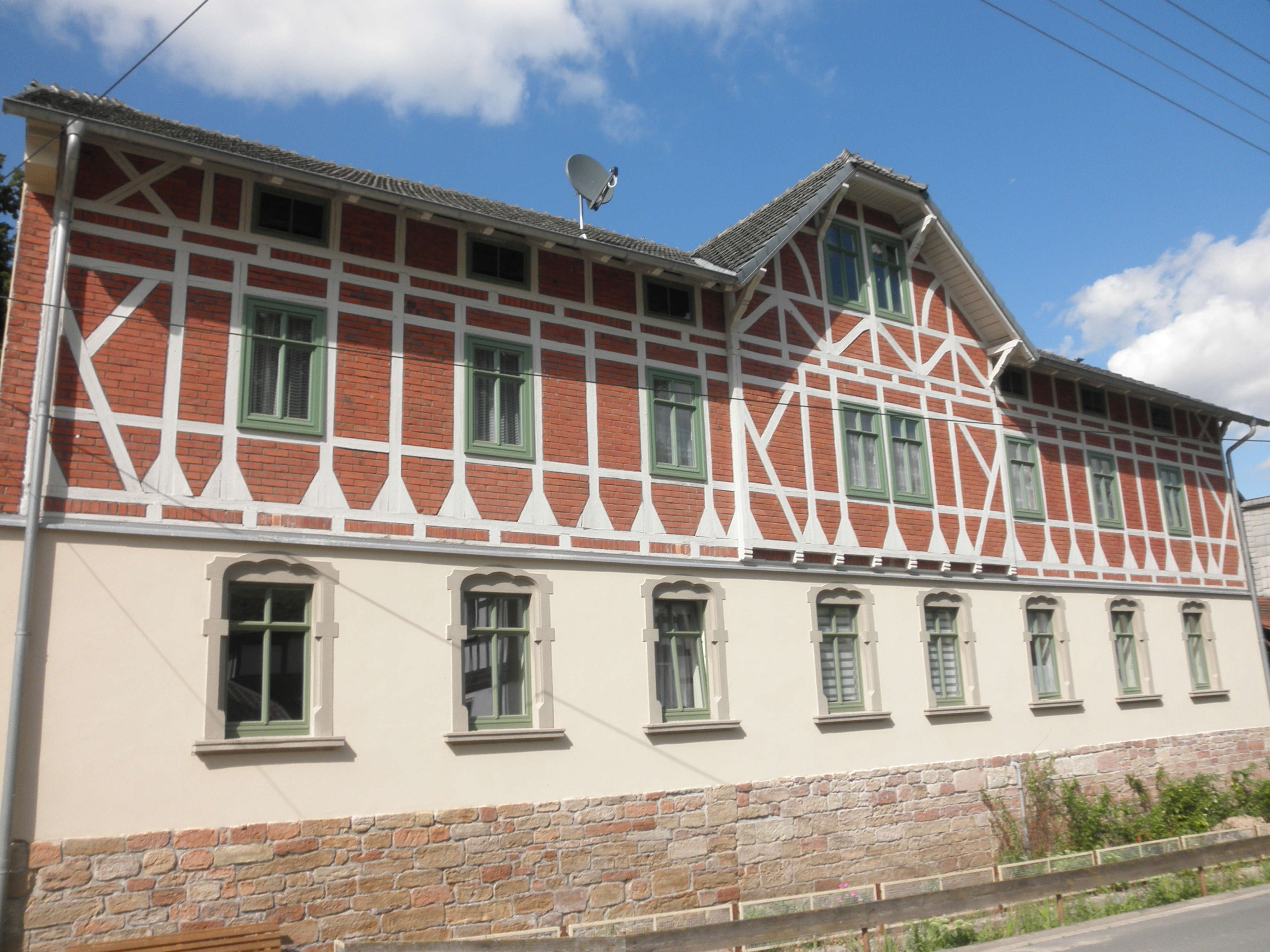 Half timbered building in Rattelsdorf (Thüringen) in Thuringia